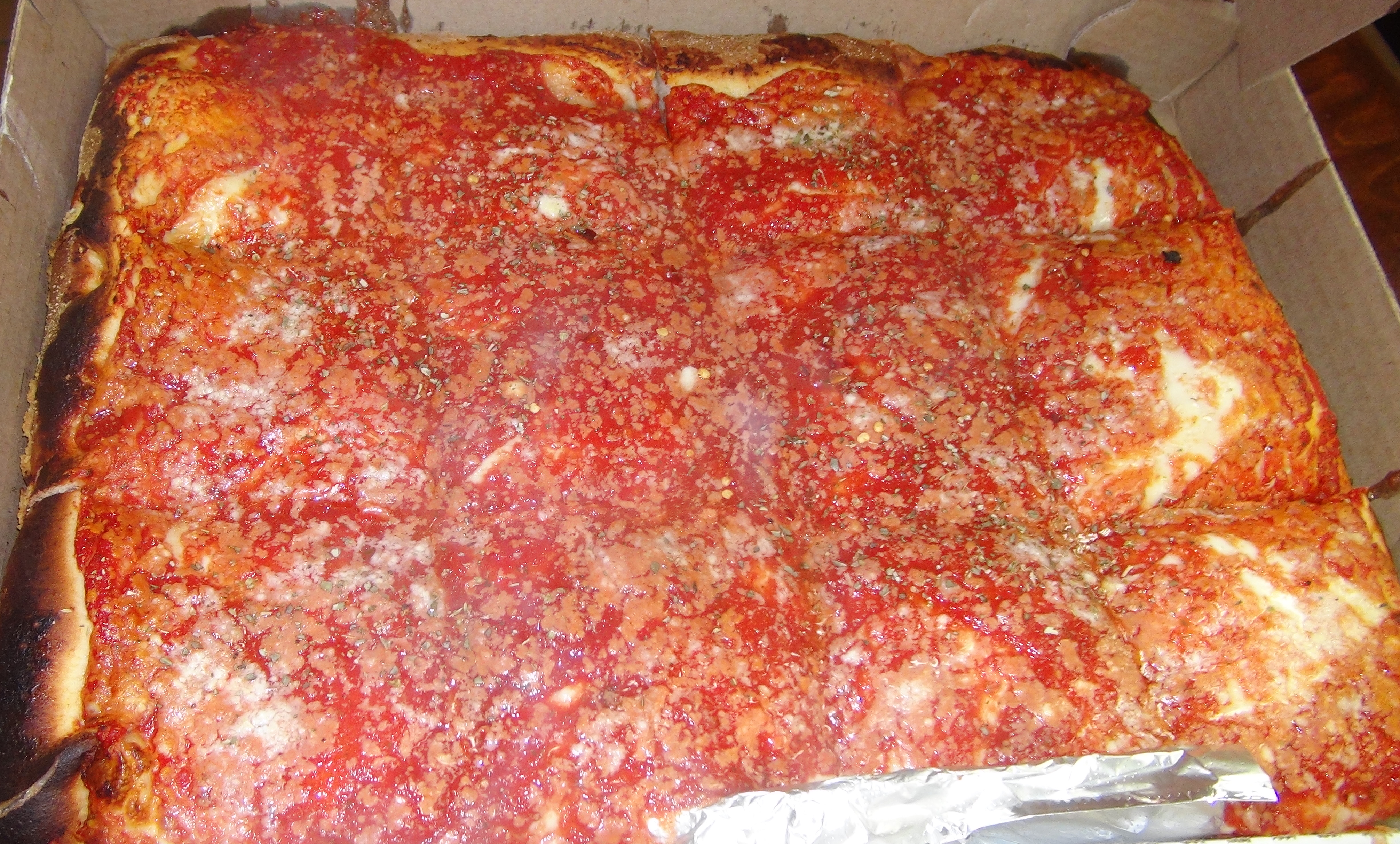 Photo of Sicilian style pizza at Spumoni Gardens in Brooklyn